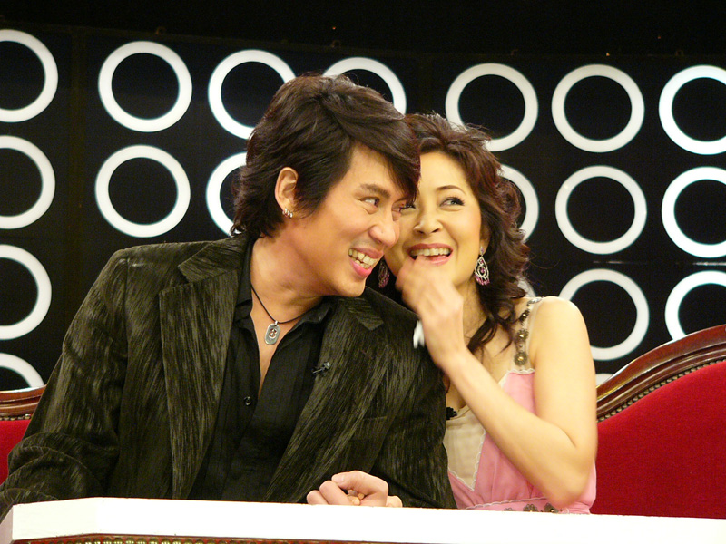 Bird Thongchai and Kwang Kamolchanok